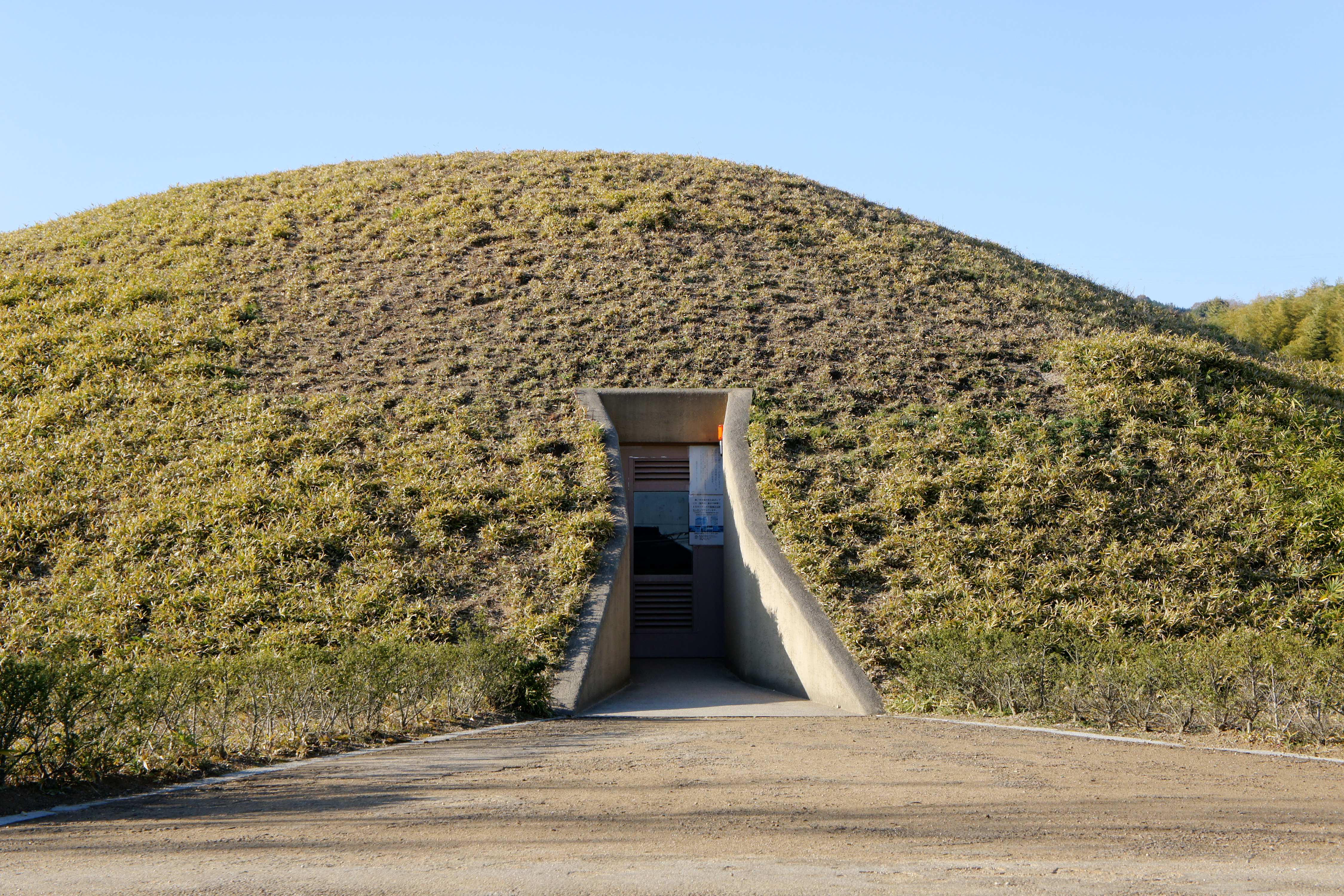 Fujinoki Tomb in Ikaruga, Nara prefecture, Japan.